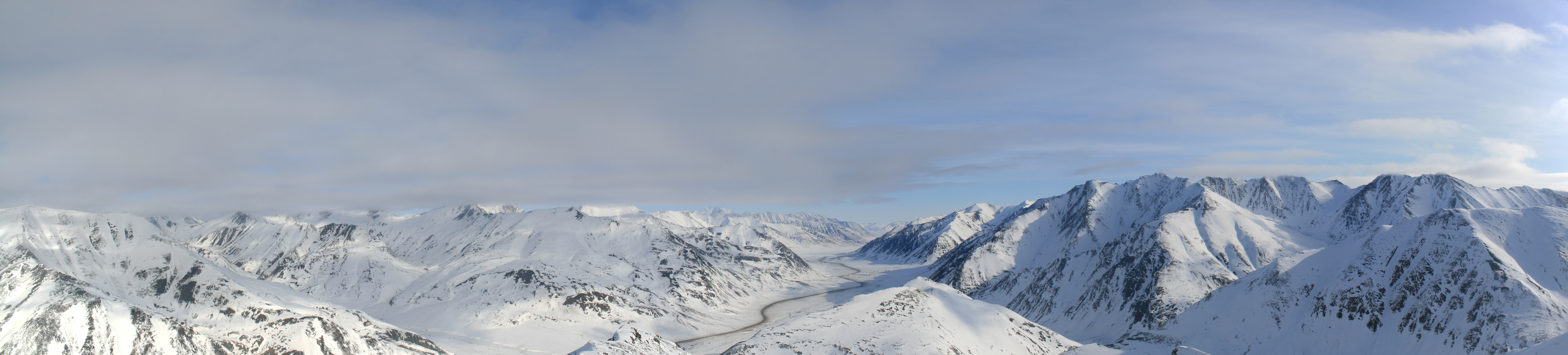 Atigun Pass, facing north. Panoramic photo created in Hugin. ISO-100, f/11, 1/320th of a second at 18mm on a Canon Digital Rebel XTi on the kit lens.